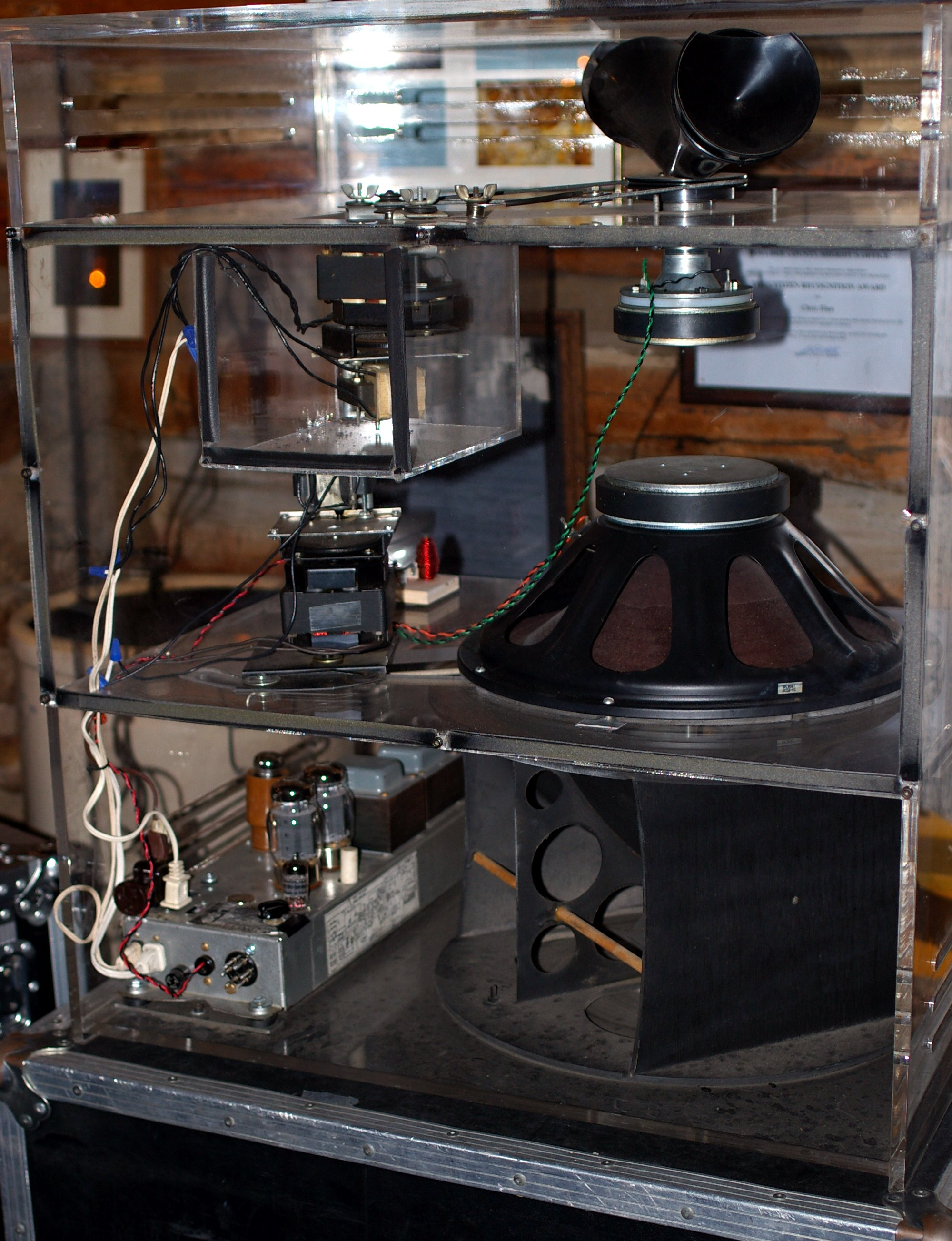 A Leslie speaker, with the cabinet made out of a clear acrylic plastic. Speaker owned by Chris Fischer, Boulder Colorado - keyboardist for Funkiphino